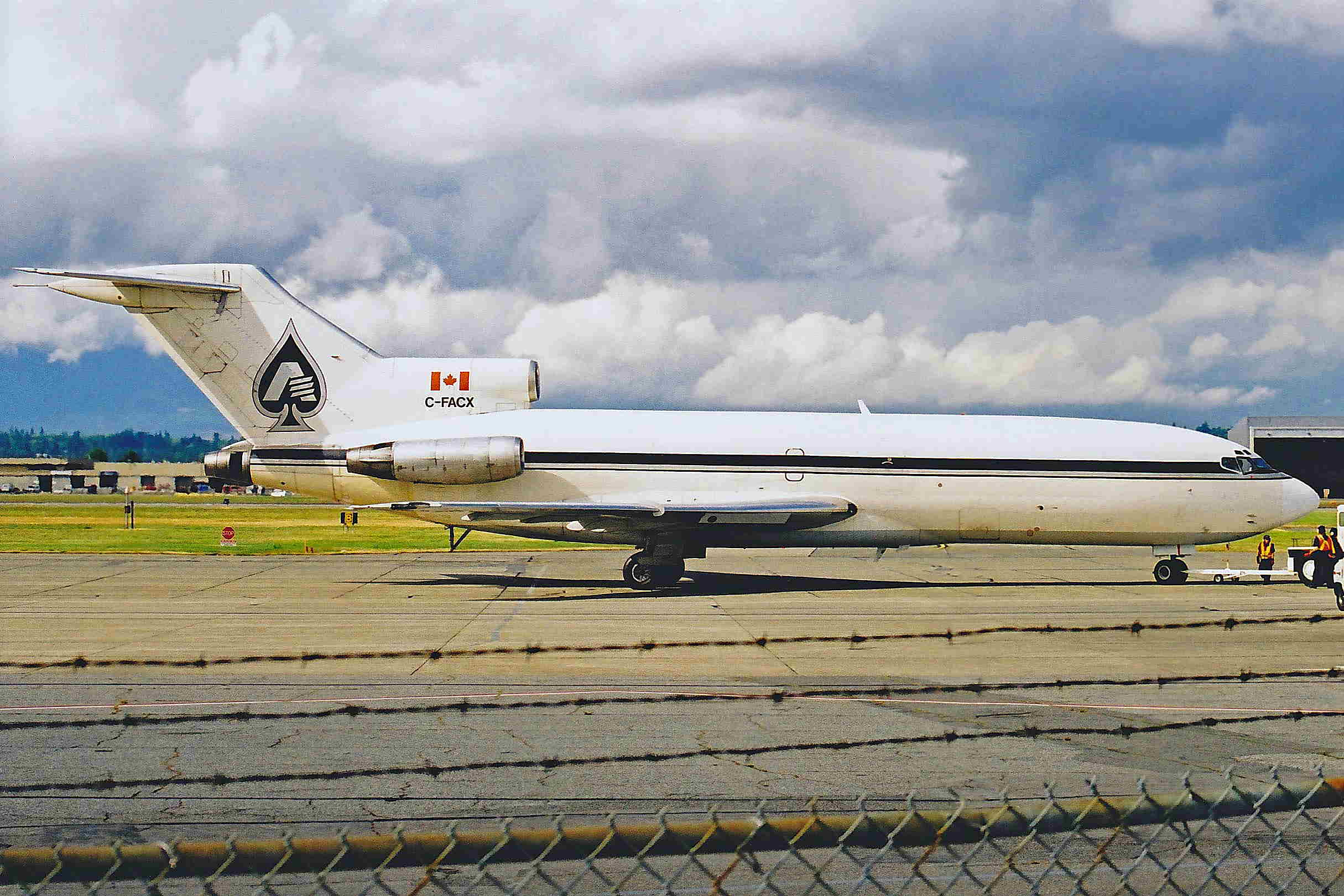 A picture of an airplane (name of it is on the file name).